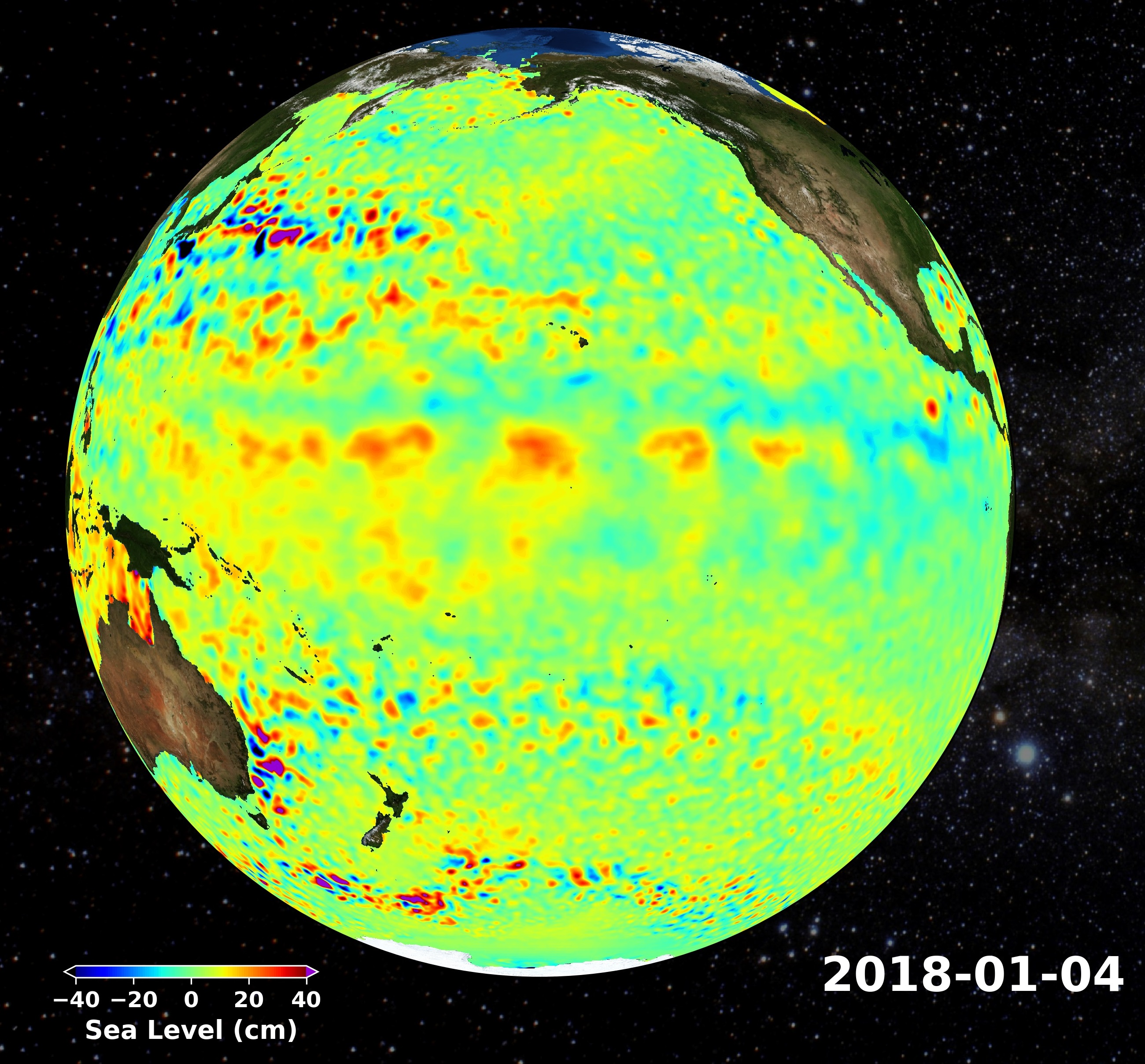 Jason-2/OSTM contributed to a long-term record of global sea levels. This image shows areas in the Pacific Ocean where sea levels were lower (blues) or higher (reds) than normal during the first week of January 2018.